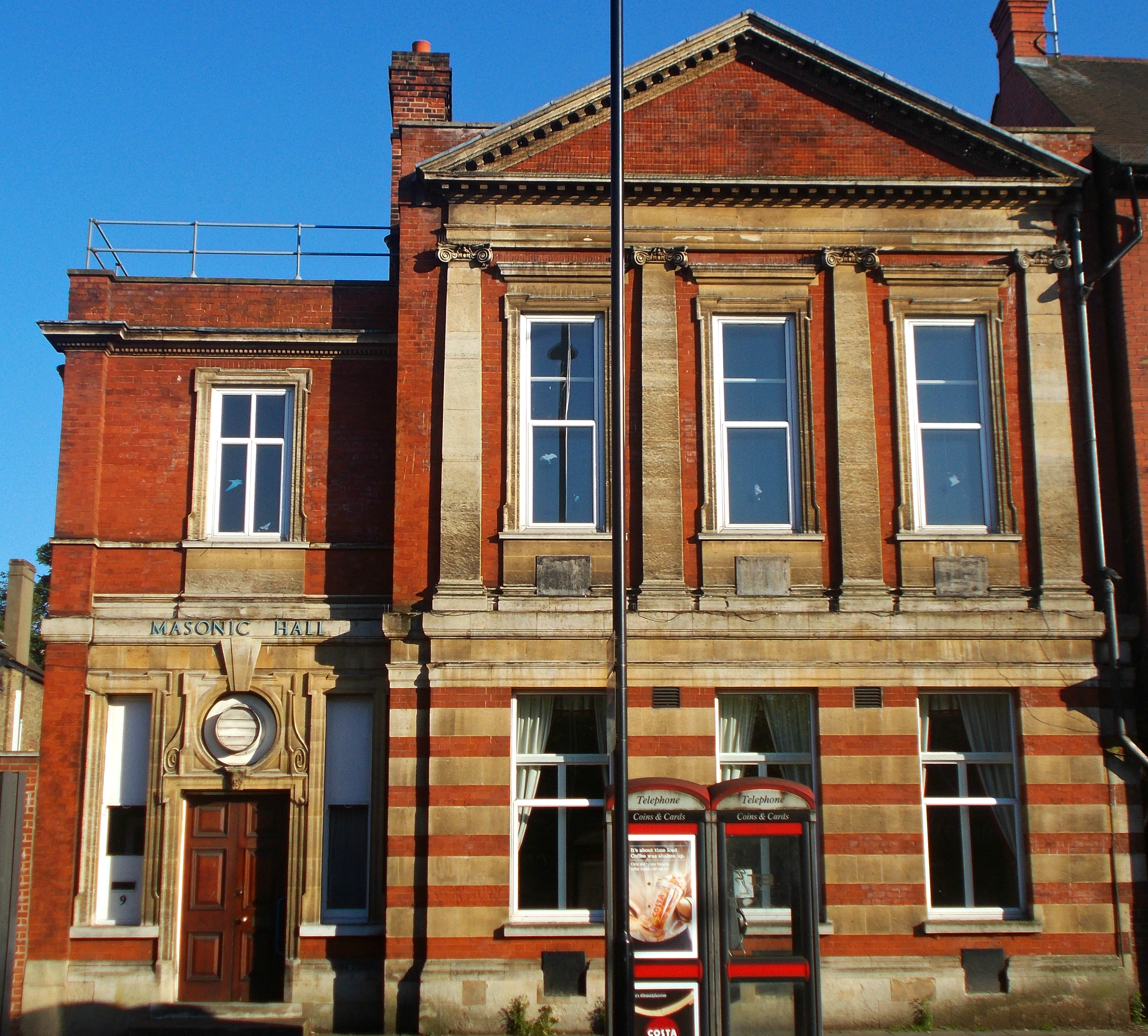 Sutton Masonic Hall, SUTTON, Surrey, Greater London